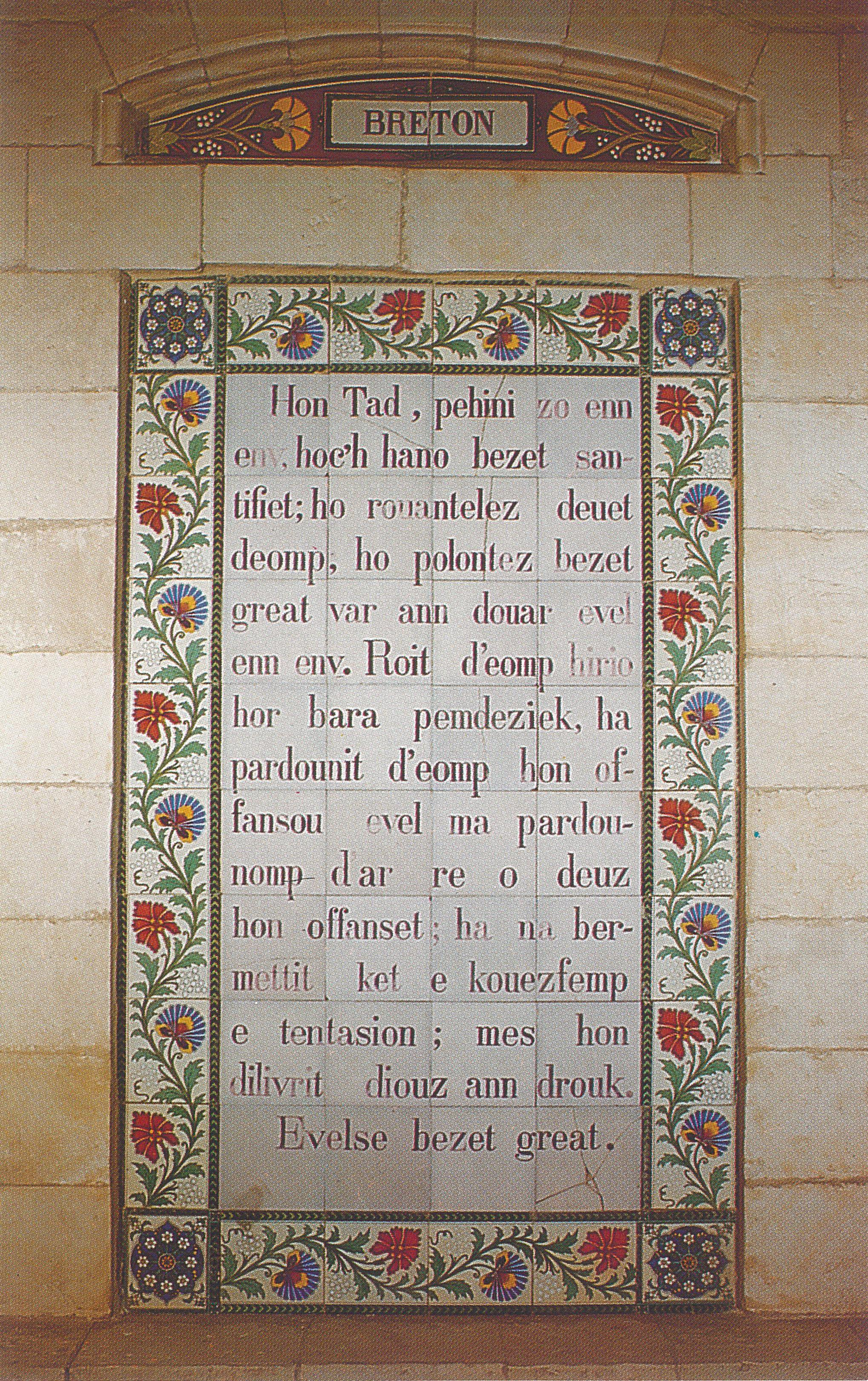 The Lord's Prayer in Breton language, late 19th century, Church of the Pater Noster in Jerusalem